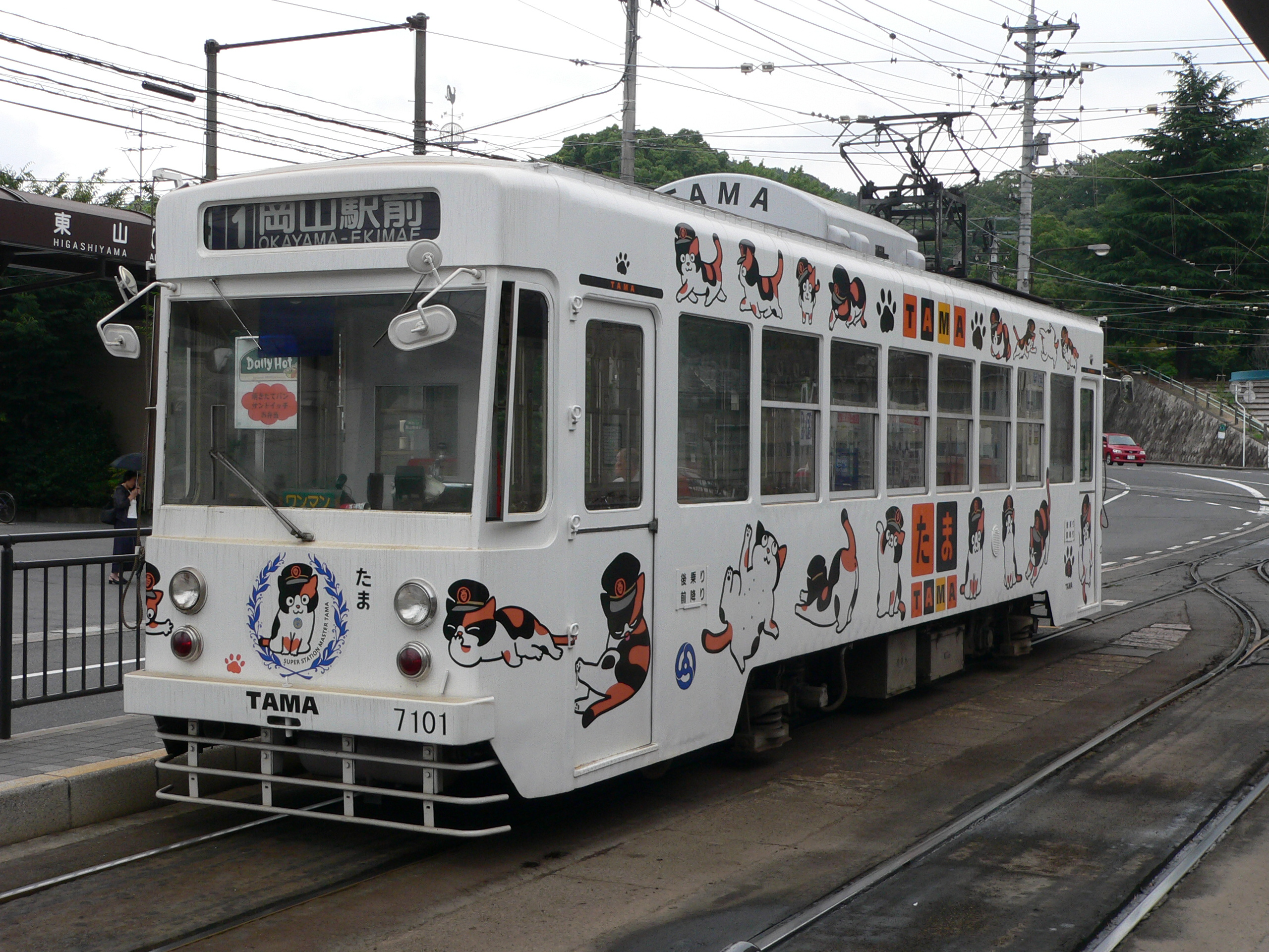 Okayama Electric Tramway 7100 series tramcar number 7101 in "Tama Densha" livery